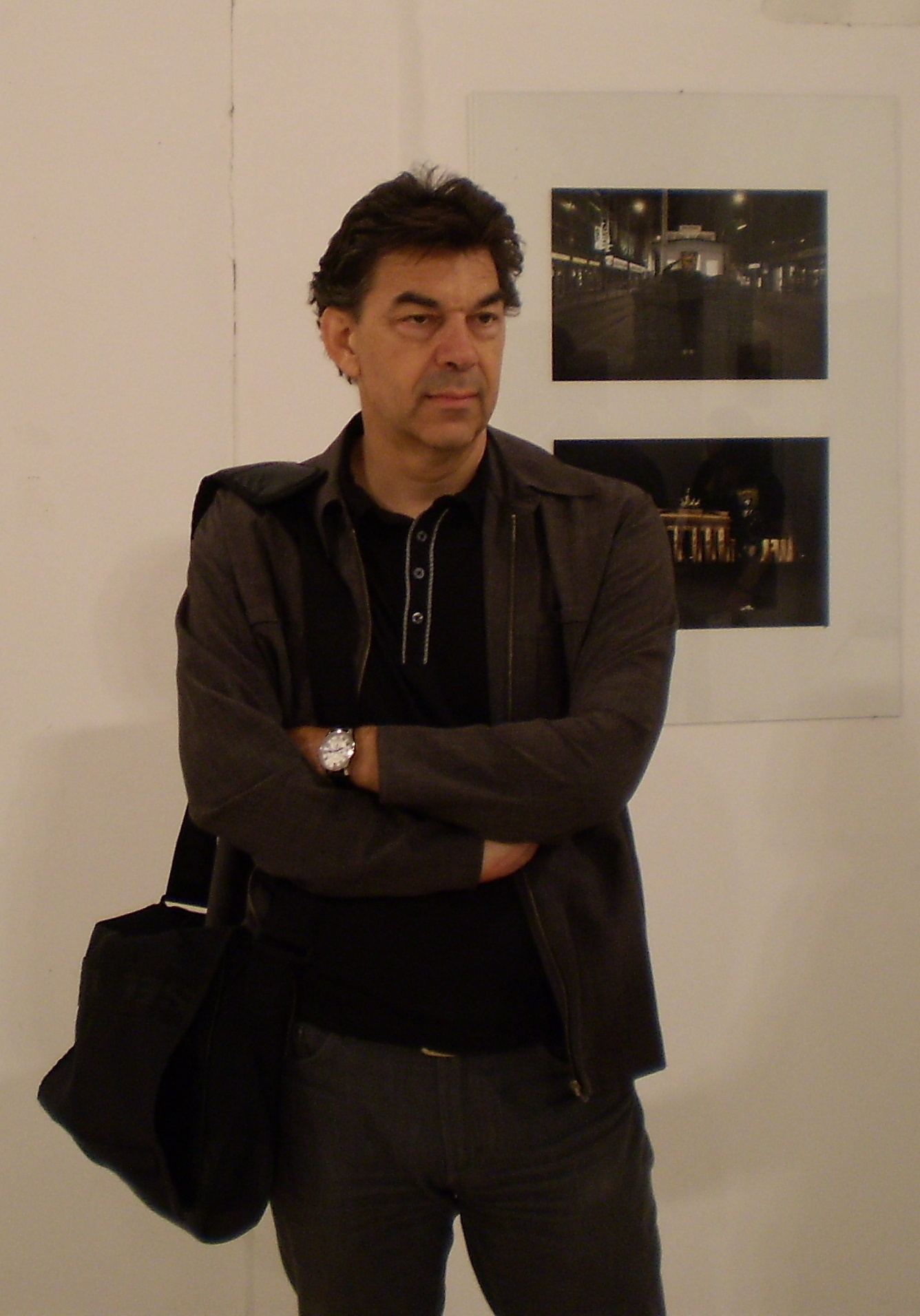 Boza (Boja) Vasic is a Toronto based media artist and photographer, at the opening of the solo exhibition in the "Pavilion 77" in the Fortress, Niš, Serbia